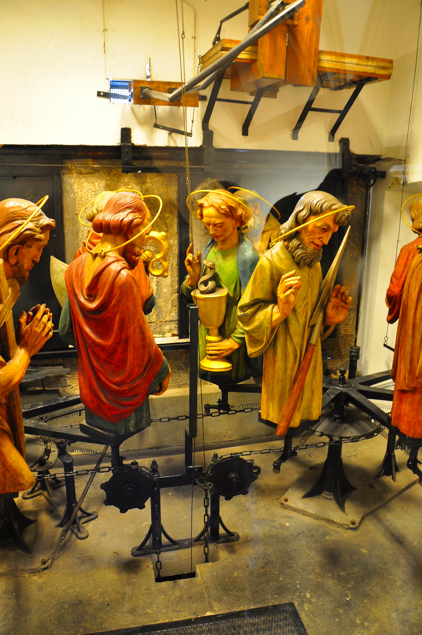 Apostles on the Prague Astronomical Clock